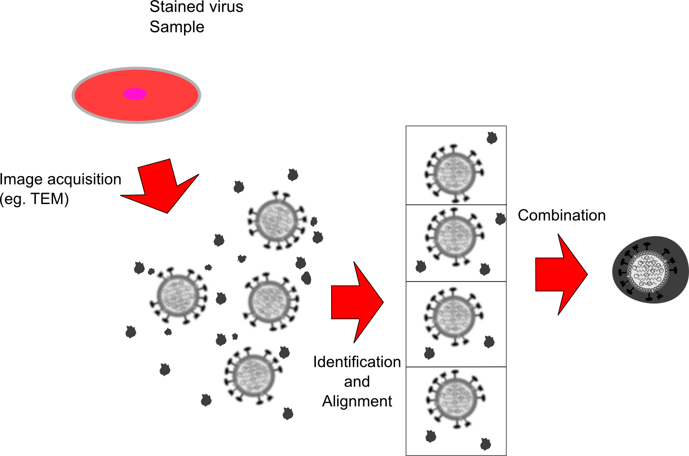 Derivative work of File:Virus_Replication.svg. Use of single particle analysis (SPA), in this example to improve image acquisition of viruses. Image is slightly misleading -- usually SPA is an averaging filter coupled to a pattern recognition algorithm, and thus does not enhance image quality (deblurring), but rather improves signal to noise in weakly stained viruses. Of course deconvolution techniques can be used to deblur the SPA image, and thus enhance spatial resolution, so this image is not wholly incorrect.